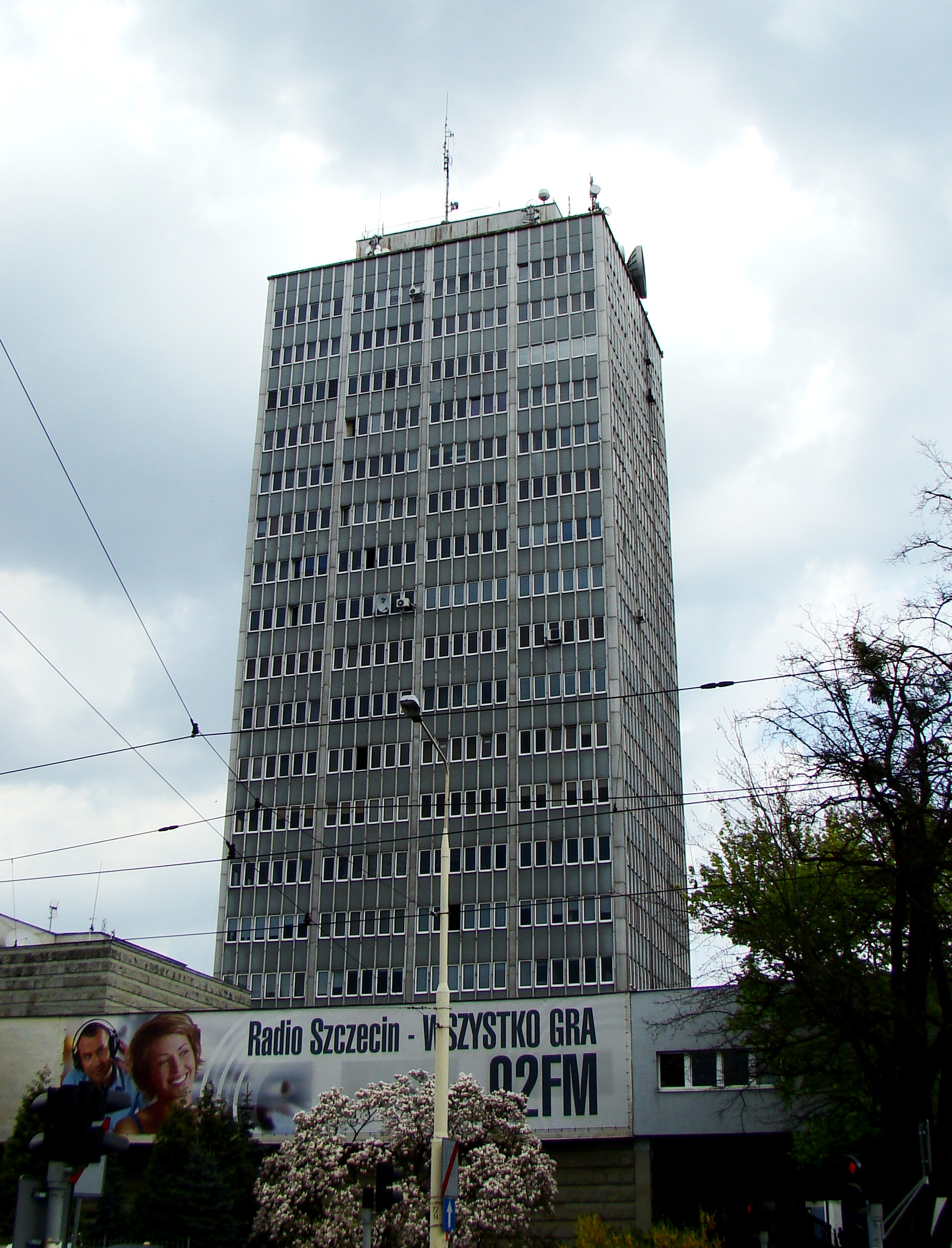 PRITV skyscraper, Szczecin, Poland